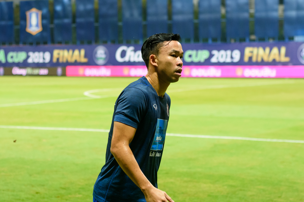 Sumanya Purisai before the Thai FA Cup Final 2019